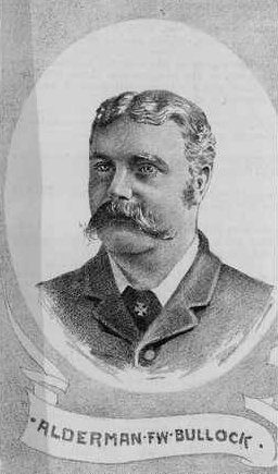 Alderman F.W. Bullock (Frederick William Bullock